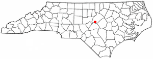 Category:North Carolina Dot Maps